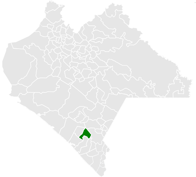 Map of the Municipalty of Escuintla in the State of Chiapas, México.